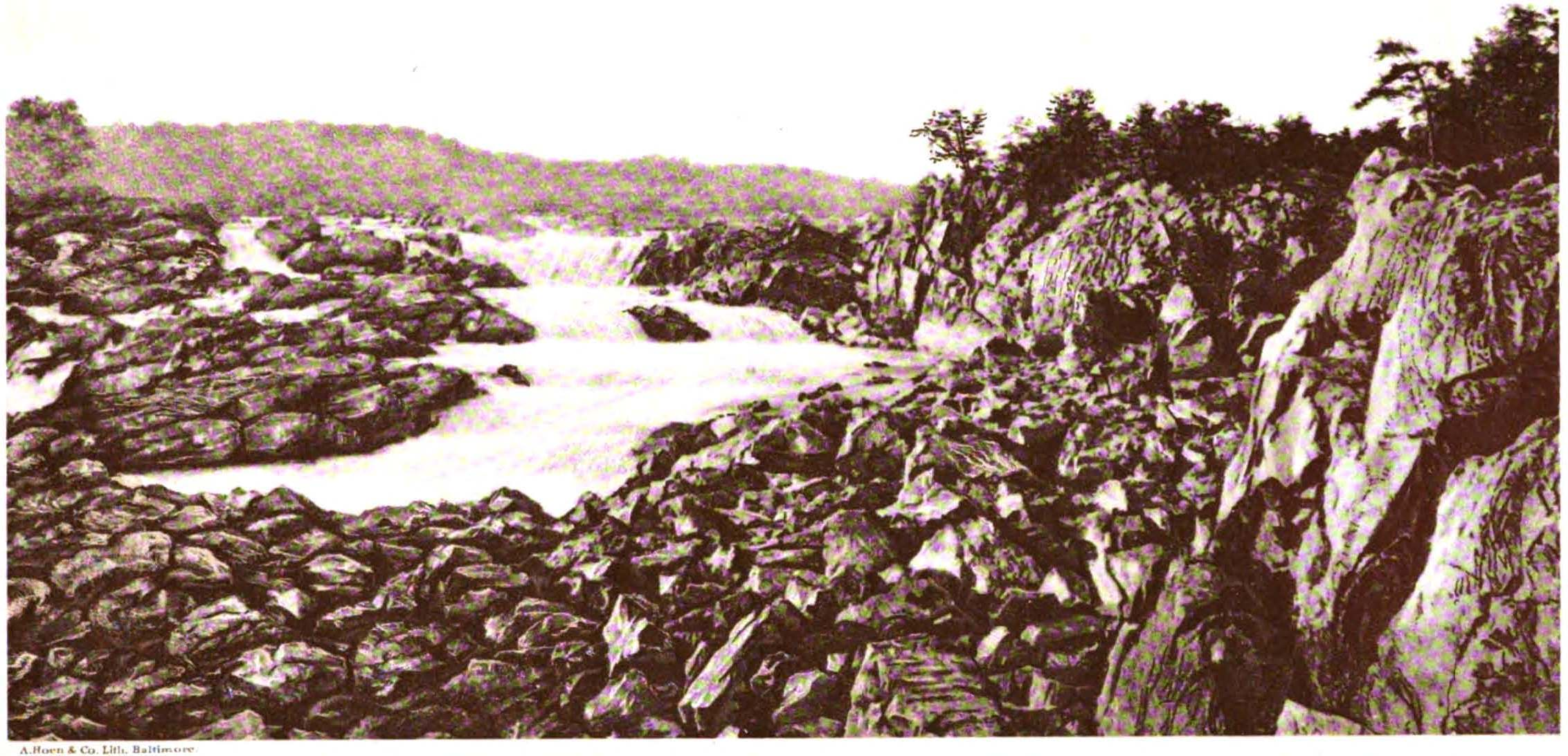 Plate VIII of 1897 publication called Maryland Geological Survey Volume One, with caption "The Falls of the Potomac." (Shows what is now called Great Falls)